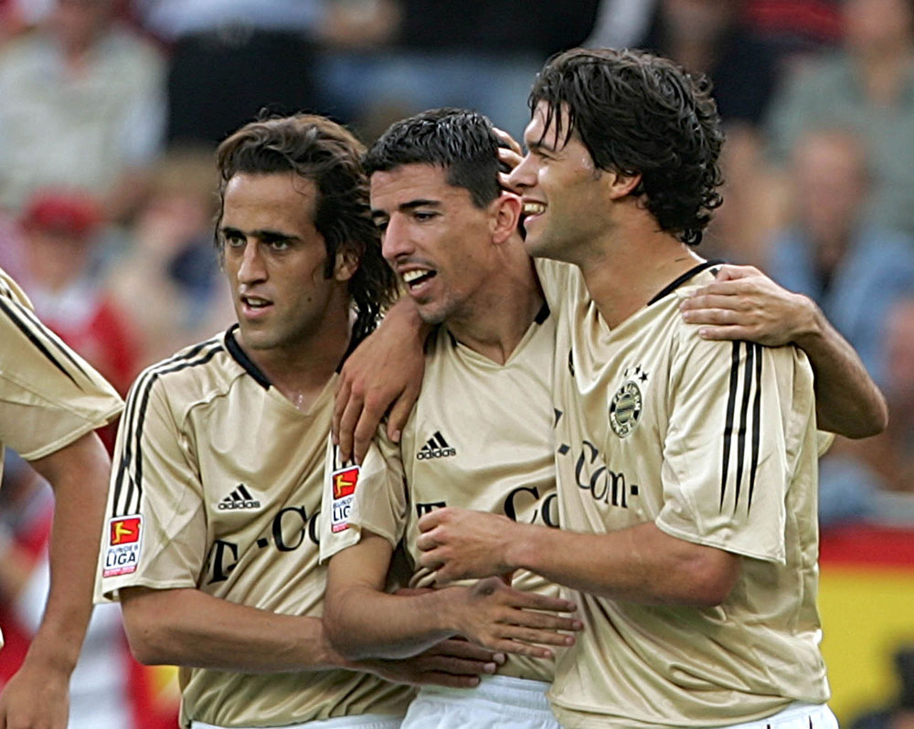 Ali Karimi, Roy Makaay and Michael Ballack celebrating during a 2006 friendly match with Persepolis in Tehran.